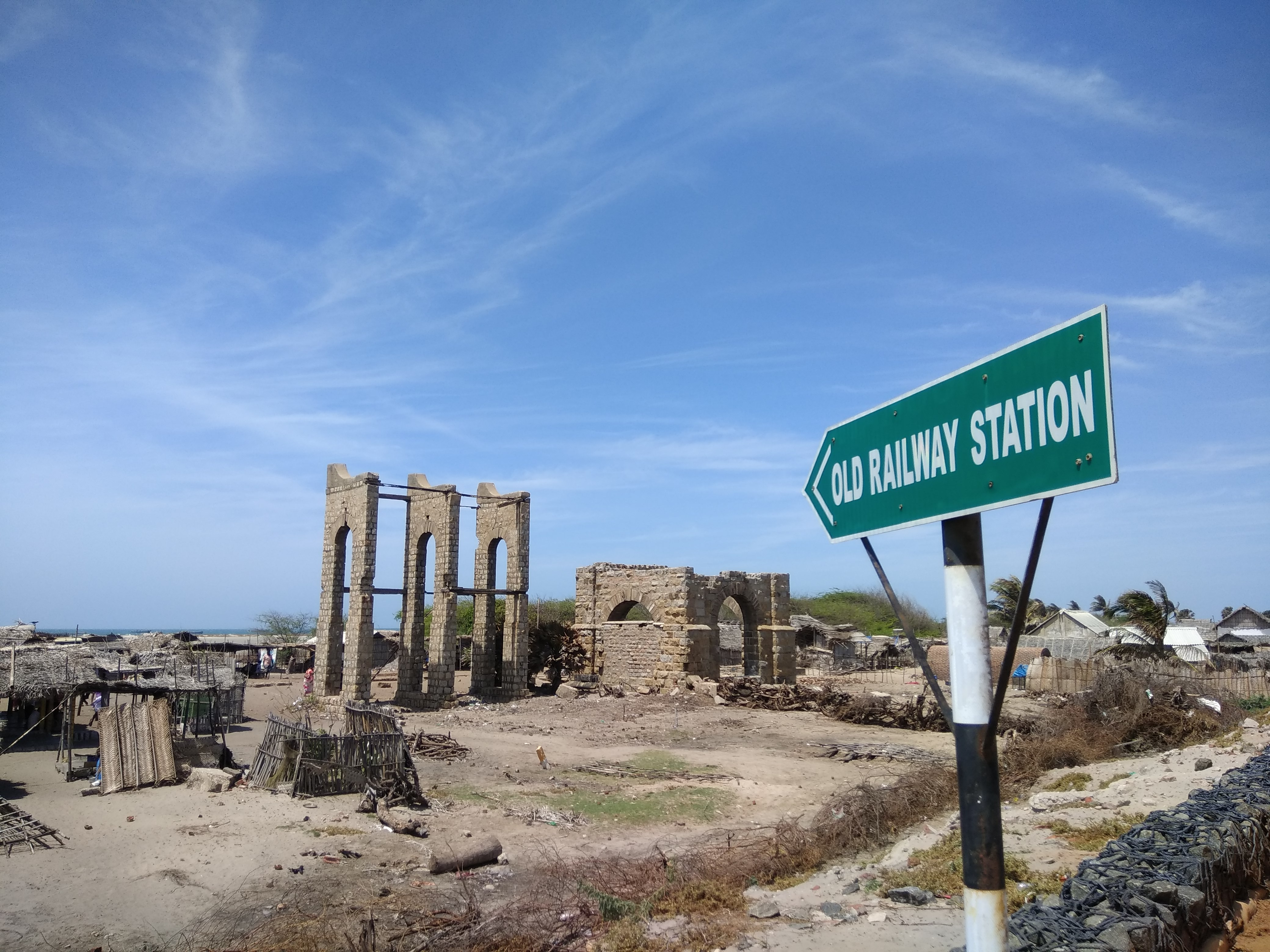 One of the India's heritage structure - Dhanushkodi's old railway station, which was damaged in 1964 cyclone.